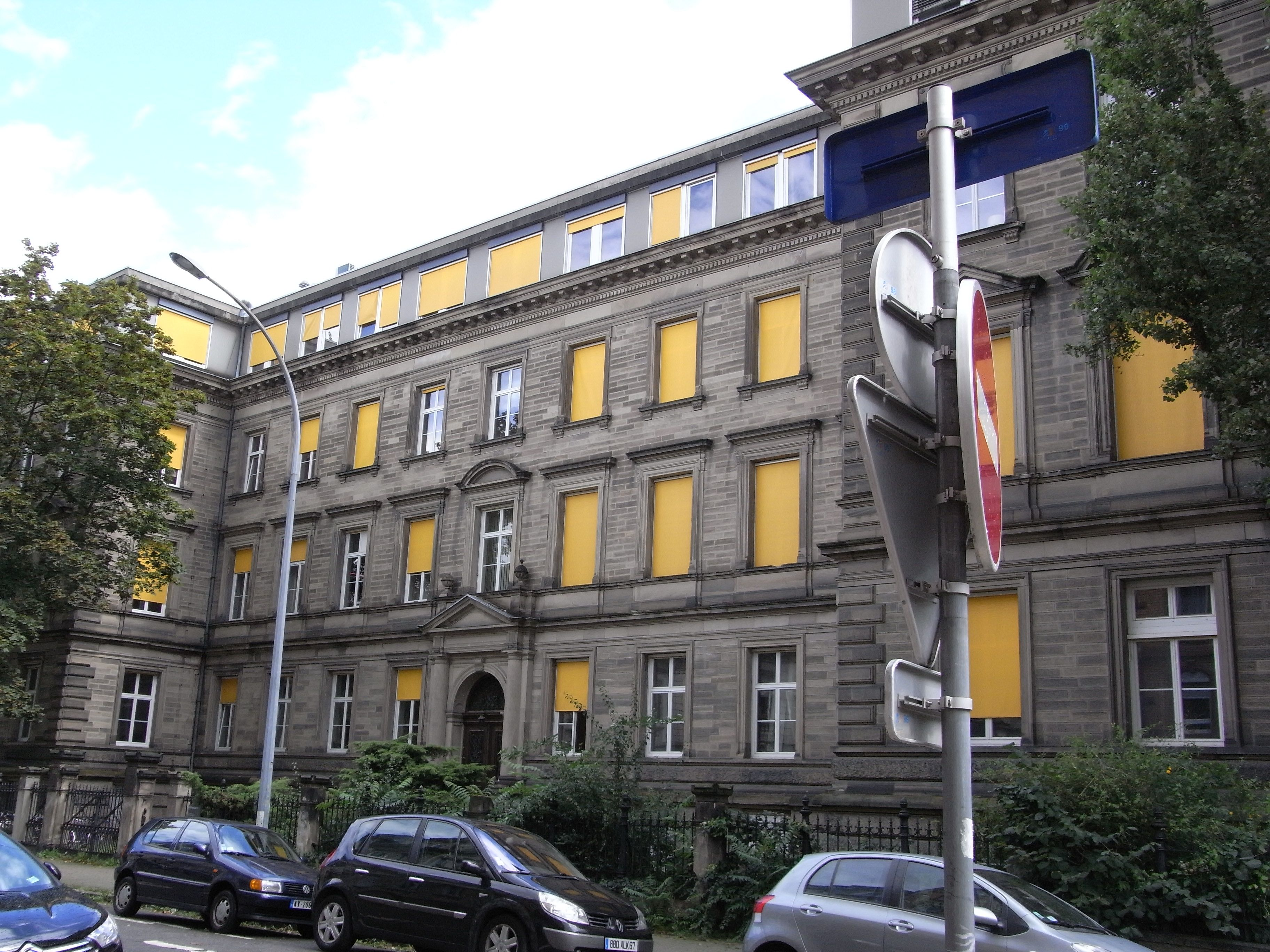 EOST building, Université de Strasbourg